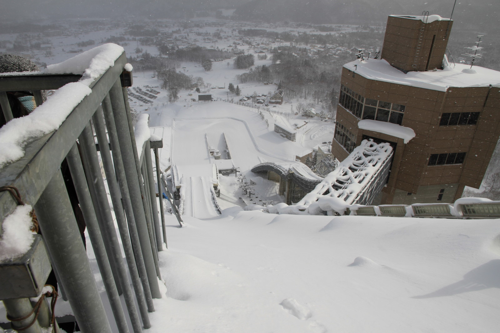 Hakuba jumphill Hakuba, Nagano, Japan